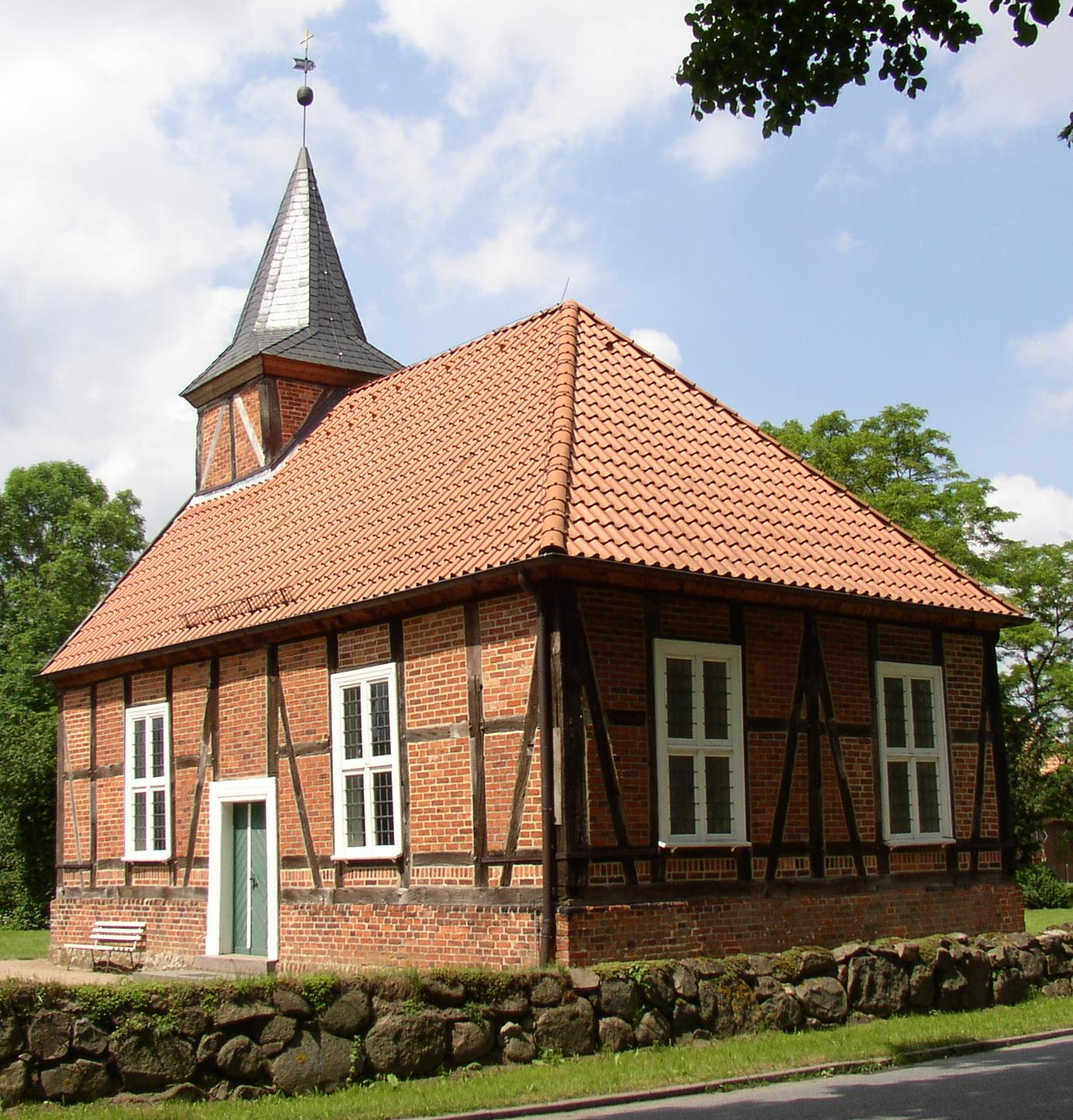 Church in Greven-Lüttenmark in Mecklenburg-Western Pomerania, Germany